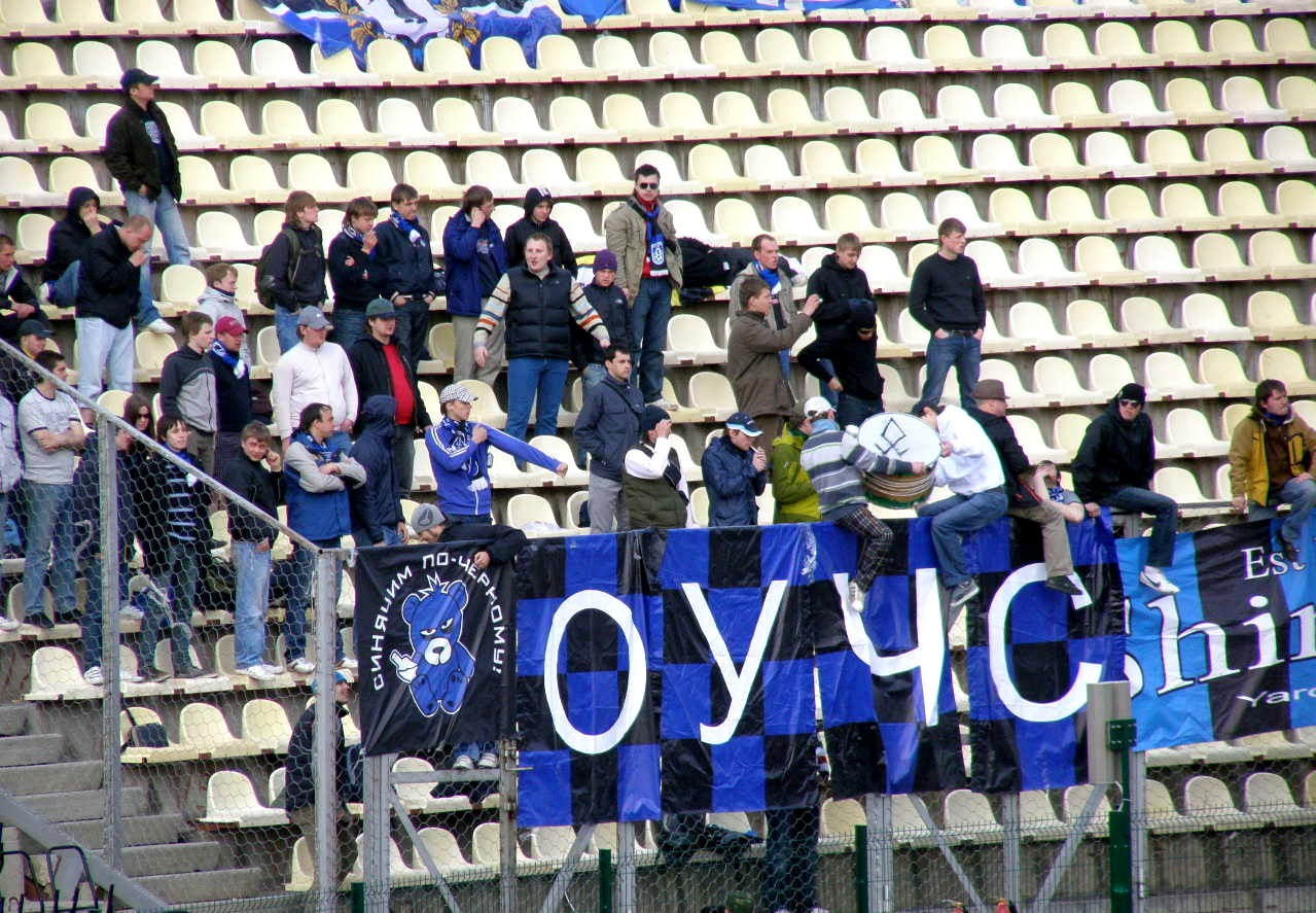 FC Shinnik supporters in away match against FC Amkar